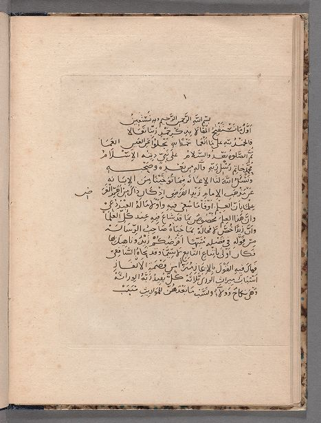 Page 39 of The Mahomedan law of succession to the property of intestates, in Arabick, engraved on copper plates from an ancient manuscript. London, Printed by J. Nichols for C. Dilly, 1782. MOSLEM 1782. صفحة من نشرة وليم جونز لمتن الرحبية - لندن سنة ١٧٨٢ م